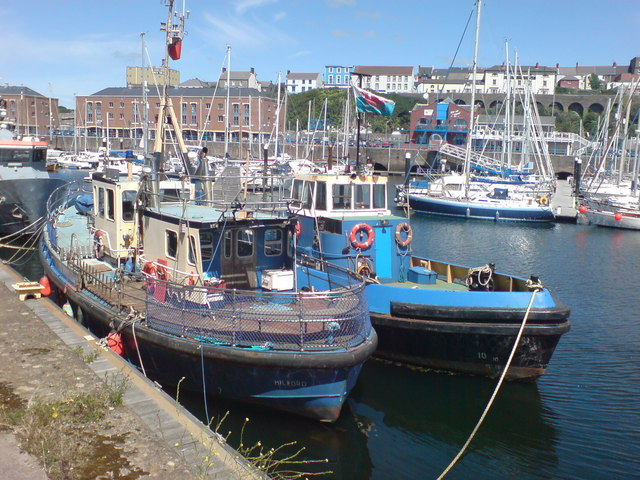 Twin tugs Keeping their distance from the new, flashy young things nearby!